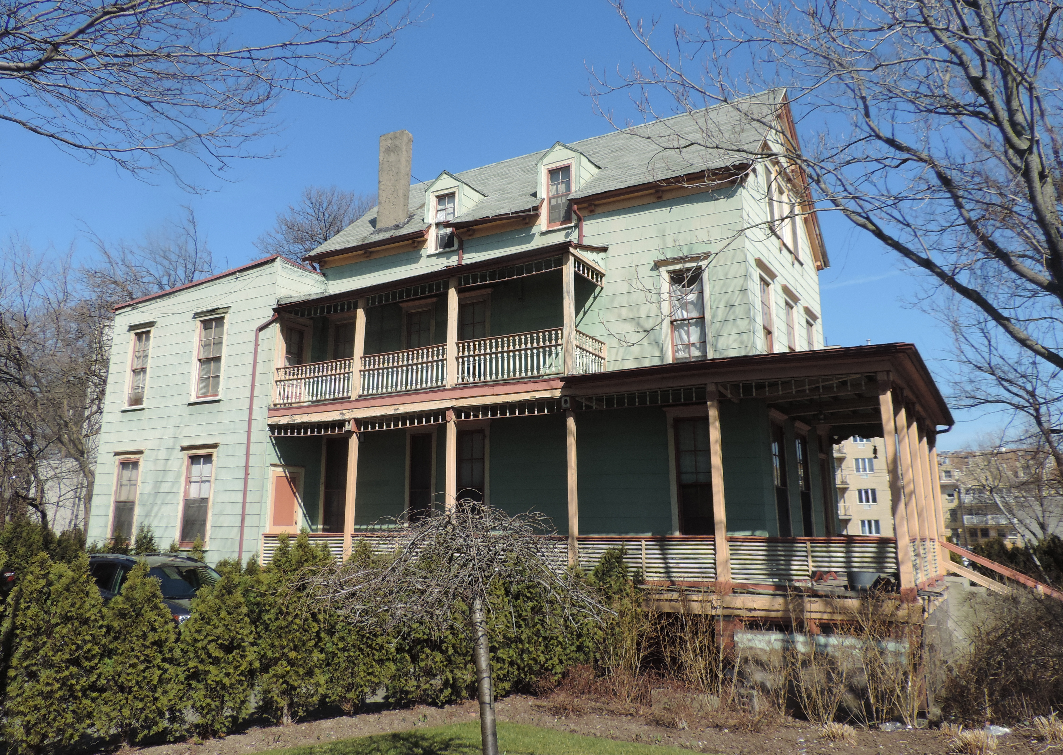 Looking east from Emons Avenue at last bungalow, between Dooley St and former Poole La, on a sunny afternoon